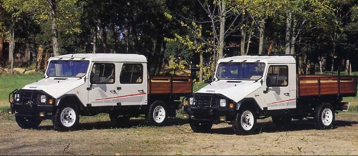 UMM Alter pick-up